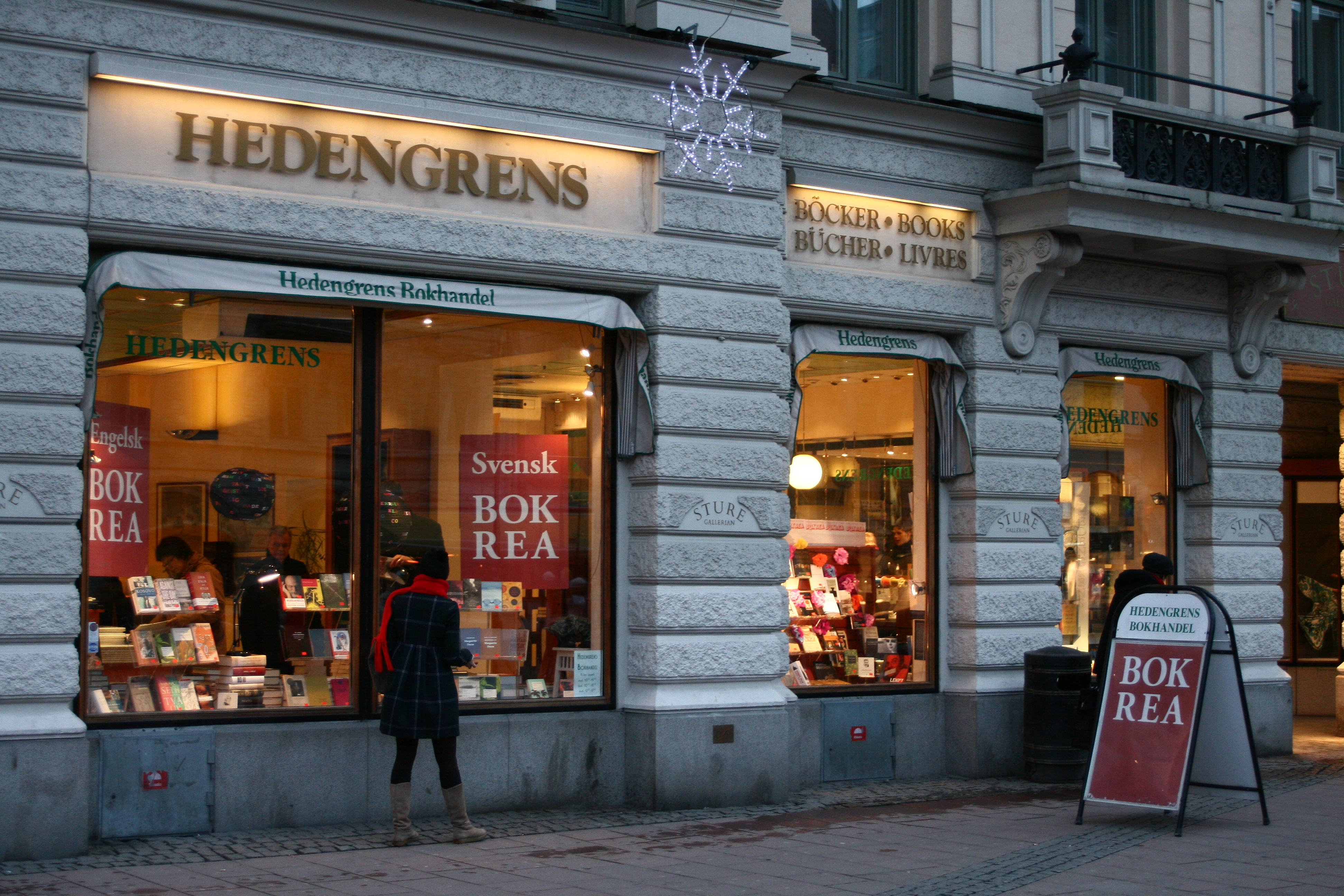 Swedish book sale (bokrea), February 2009. Hedengrens, Stureplan 4, Stockholm.